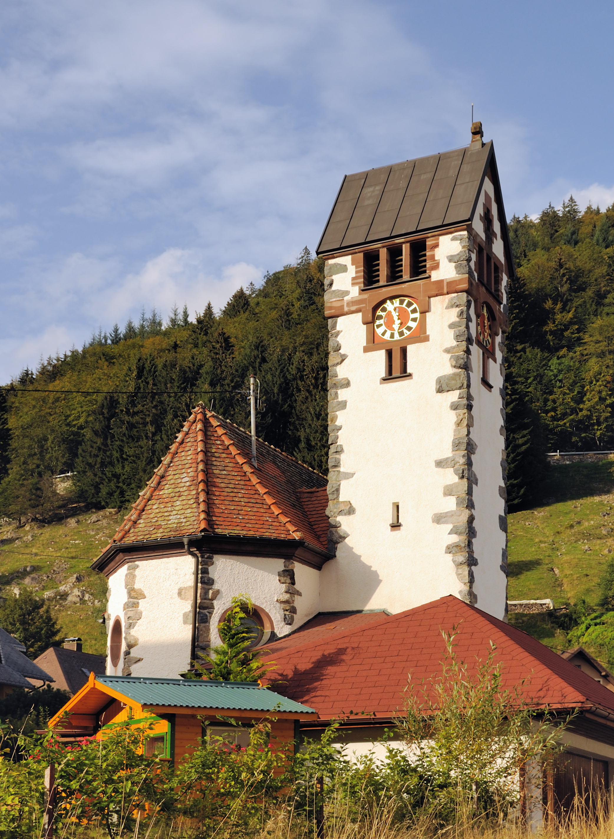 Aftersteg: Saint Anna Church